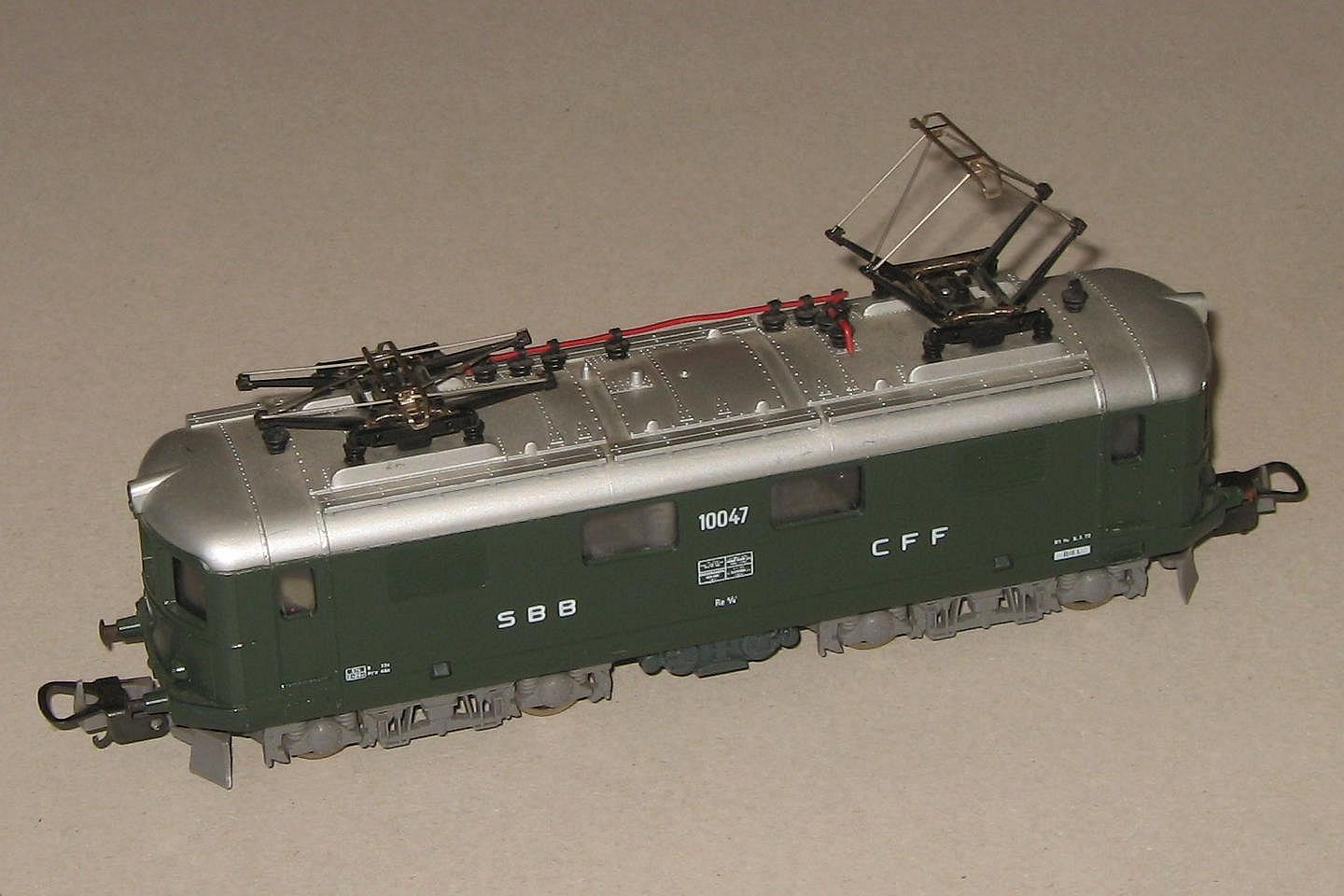 Modell of the electric locomotive Re 4/4 I from the Swiss Federal Railways (SBB CFF FFS) in H0 Scale from the italian producer Lima.